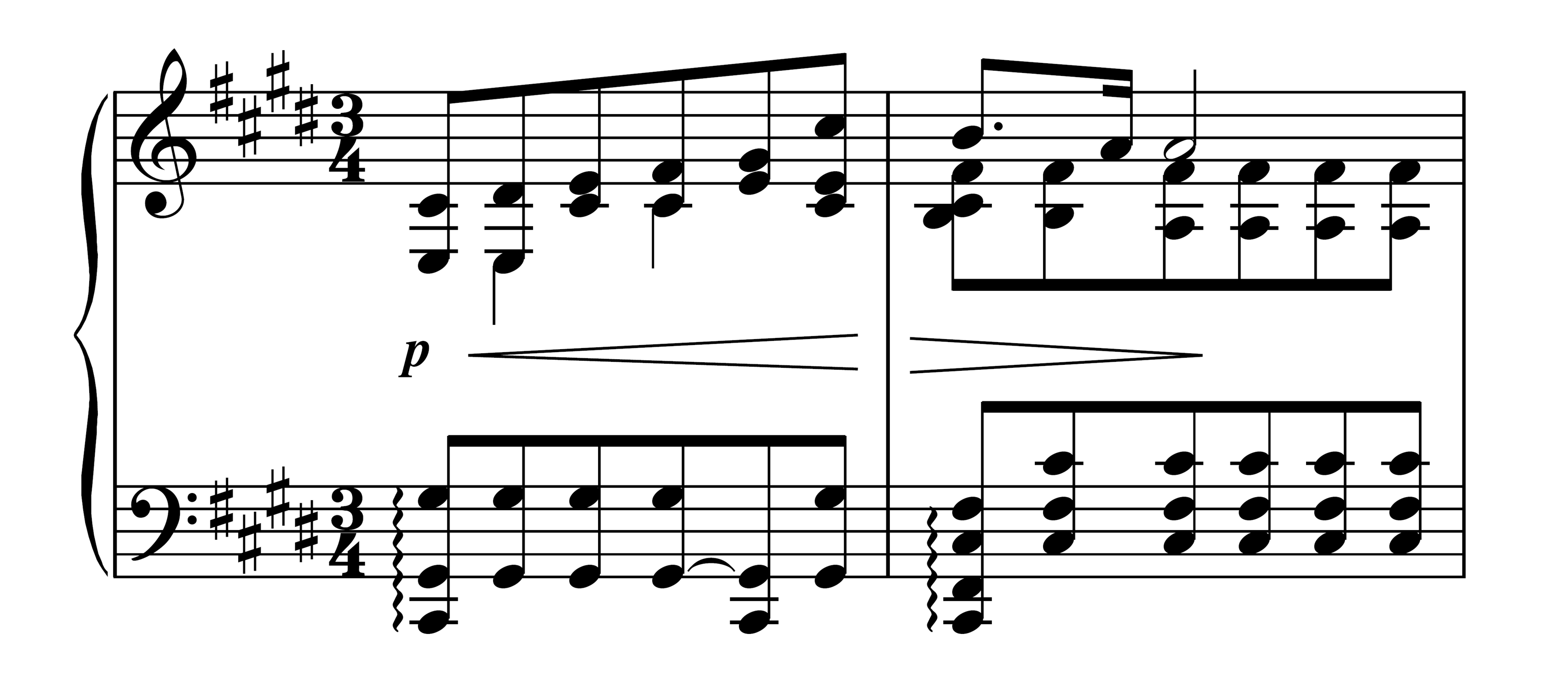 The first bar of Scriabins's Étude Op. 2 No.1